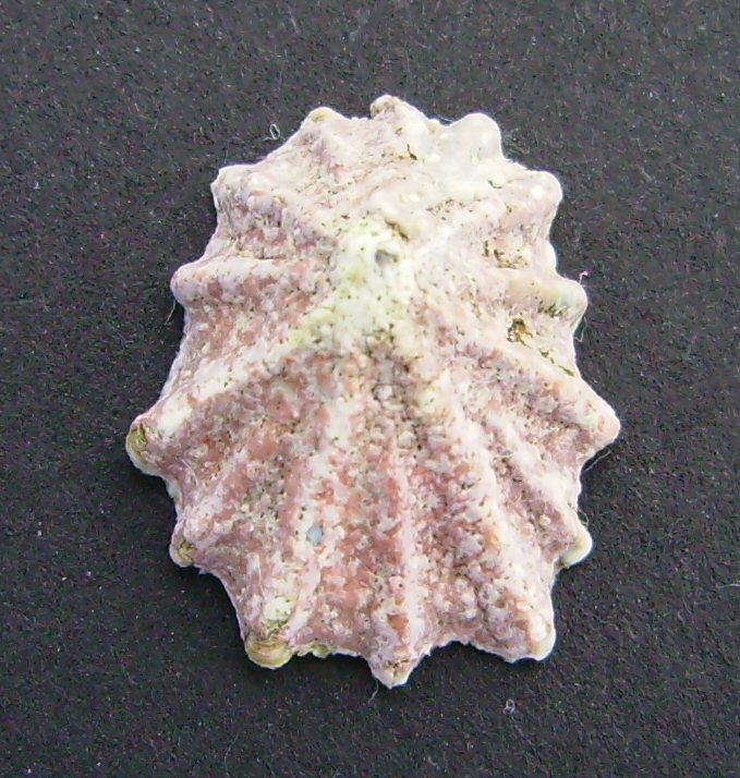 Patelloida corticata from Whatipu, New Zealand. This work has been released into the public domain by its author, Graham Bould. This applies worldwide.In some countries this may not be legally possible; if so:Graham Bould grants anyone the right to use this work for any purpose, without any conditions, unless such conditions are required by law.